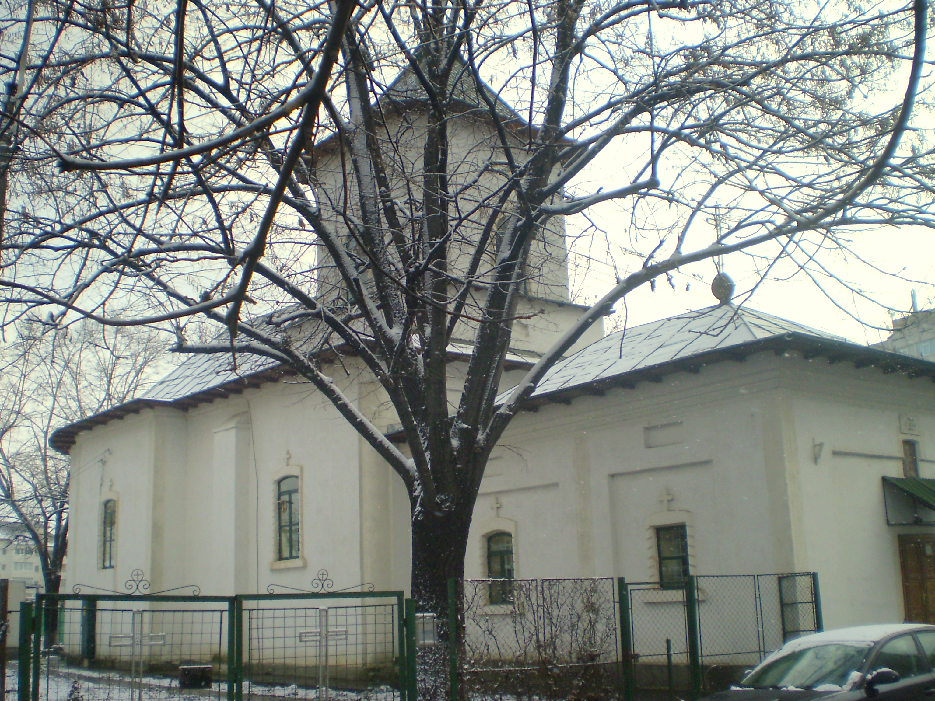 Iaşi , Saint Nicholas Ciurchi Church , Iaşi , Romania